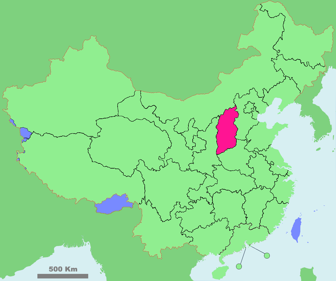 Area map of Shanxi